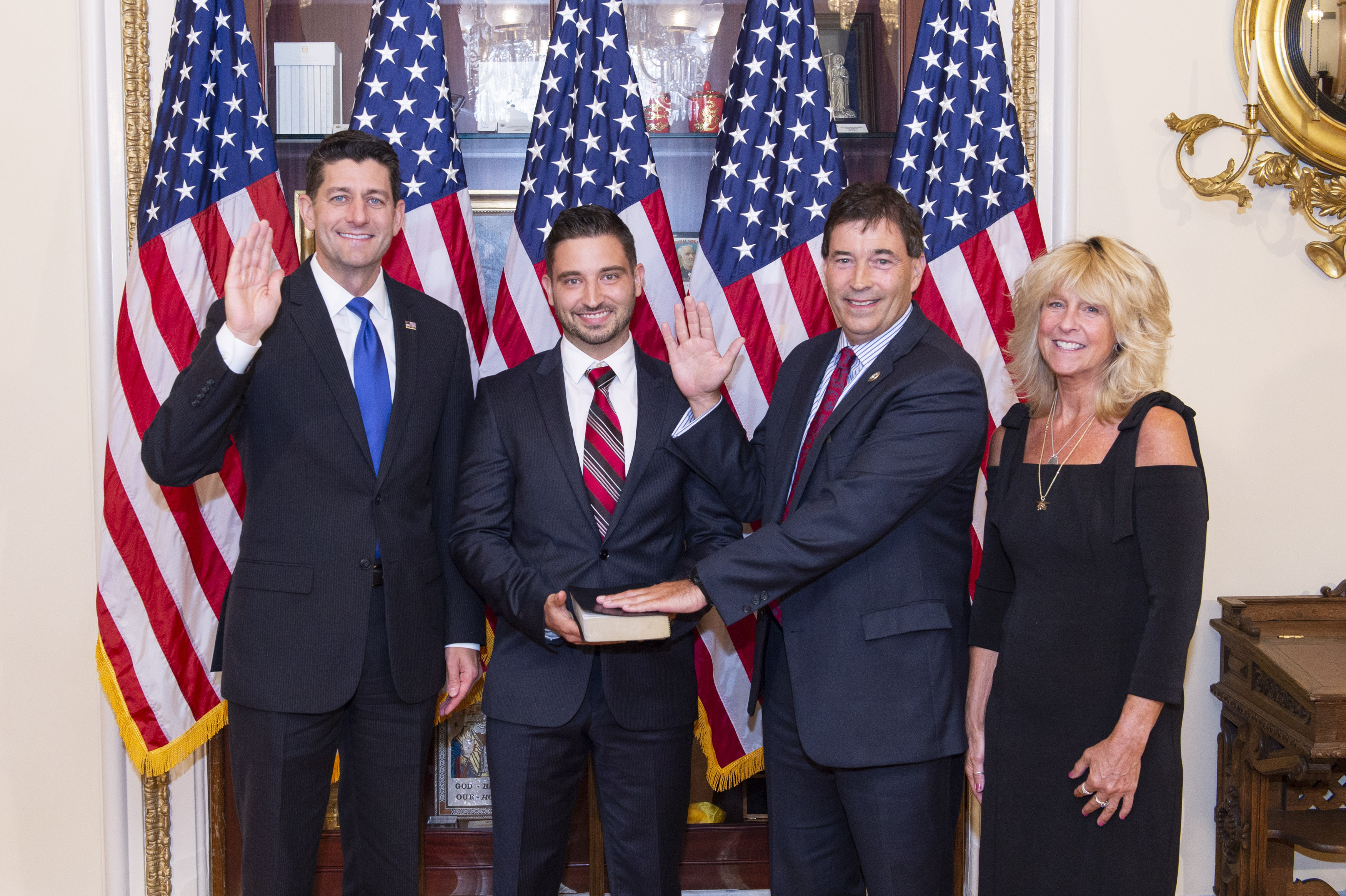 US Congressman Troy Balderson (R-Ohio) is sworn into office by House Speaker Paul Ryan on September 5, 2018.